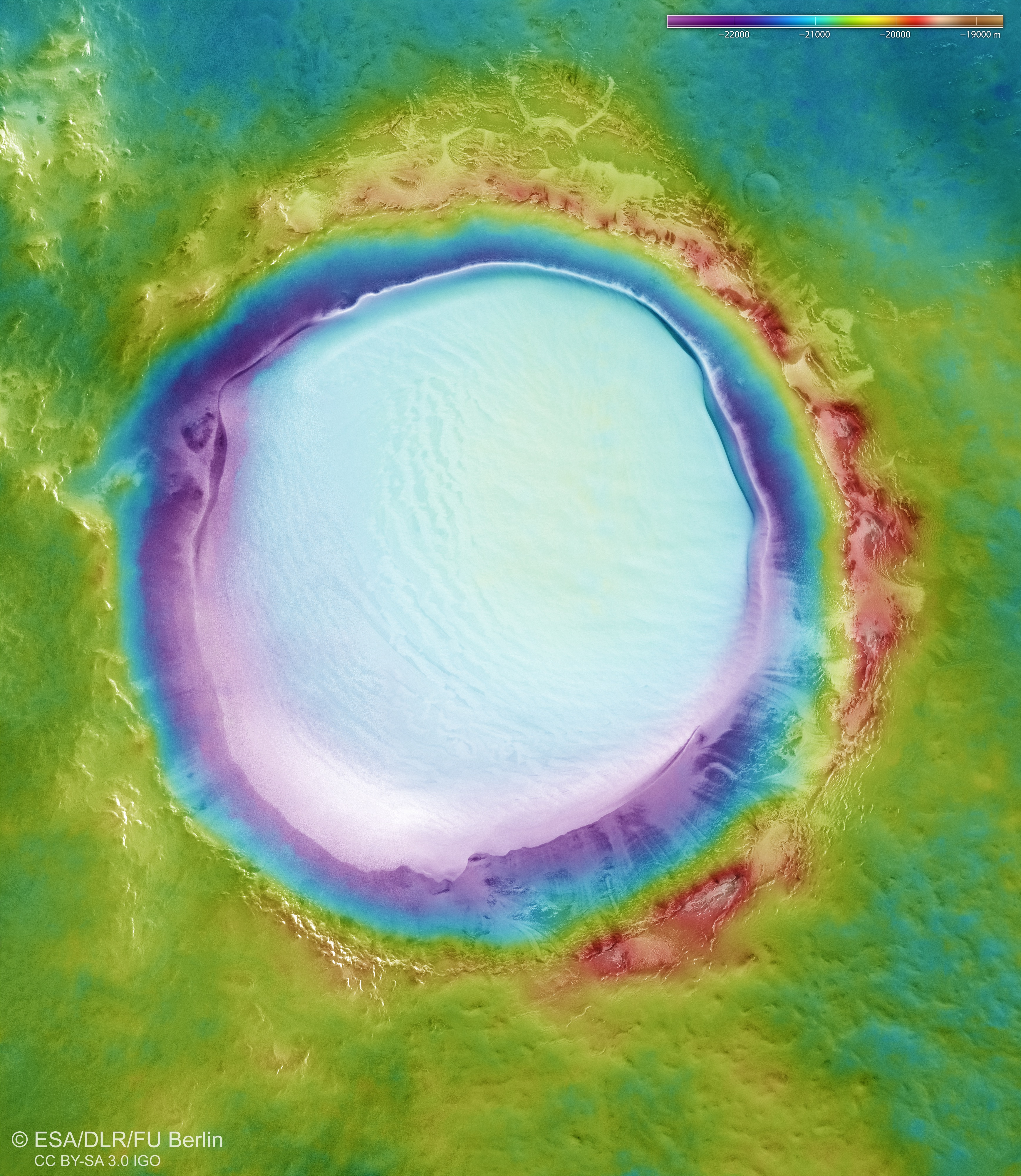 This colour-coded topographic view shows the relative heights of the terrain in and around Korolev crater, an ice-filled crater in the northern lowlands of Mars. Lower parts of the surface are shown in blues and purples, while higher-altitude regions show up in whites, browns, and reds, as indicated on the scale to the top right. The crater’s thick deposit of ice can be seen at the centre of the frame. This view is based on a digital terrain model of the region, from which the topography of the landscape can be derived. It comprises data obtained by the High Resolution Stereo Camera on Mars Express over orbits 18042 (captured on 4 April 2018), 5726, 5692, 5654, and 1412.It covers a region centred at 165° E, 73° N, and has a resolution of approximately 21 metres per pixel.